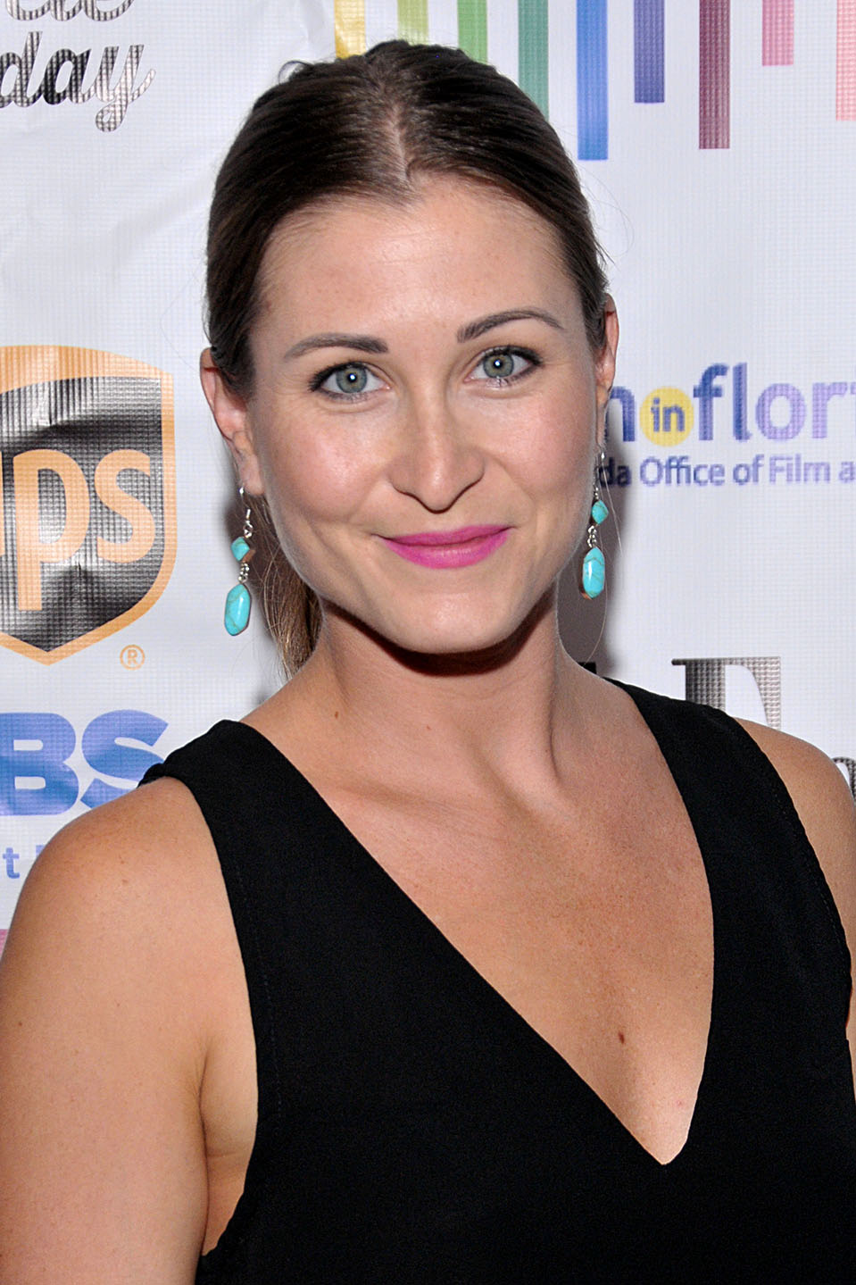 Gabrielle Stone at the LA Femme Film Festival in Los Angeles California on October 18, 2015 - Photo by Glenn Francis of